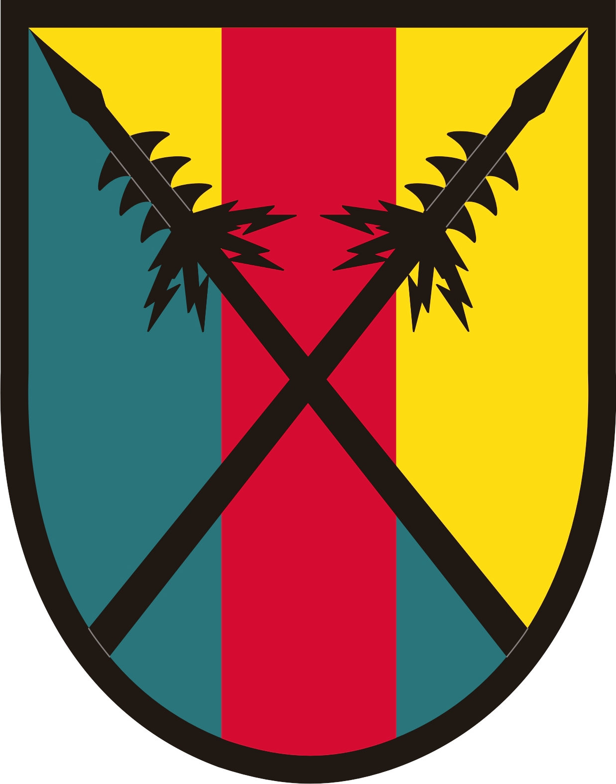 U.S. Army's 303rd Maneuver Enhancement Brigade Shoulder Sleeve Insignia (SSI)